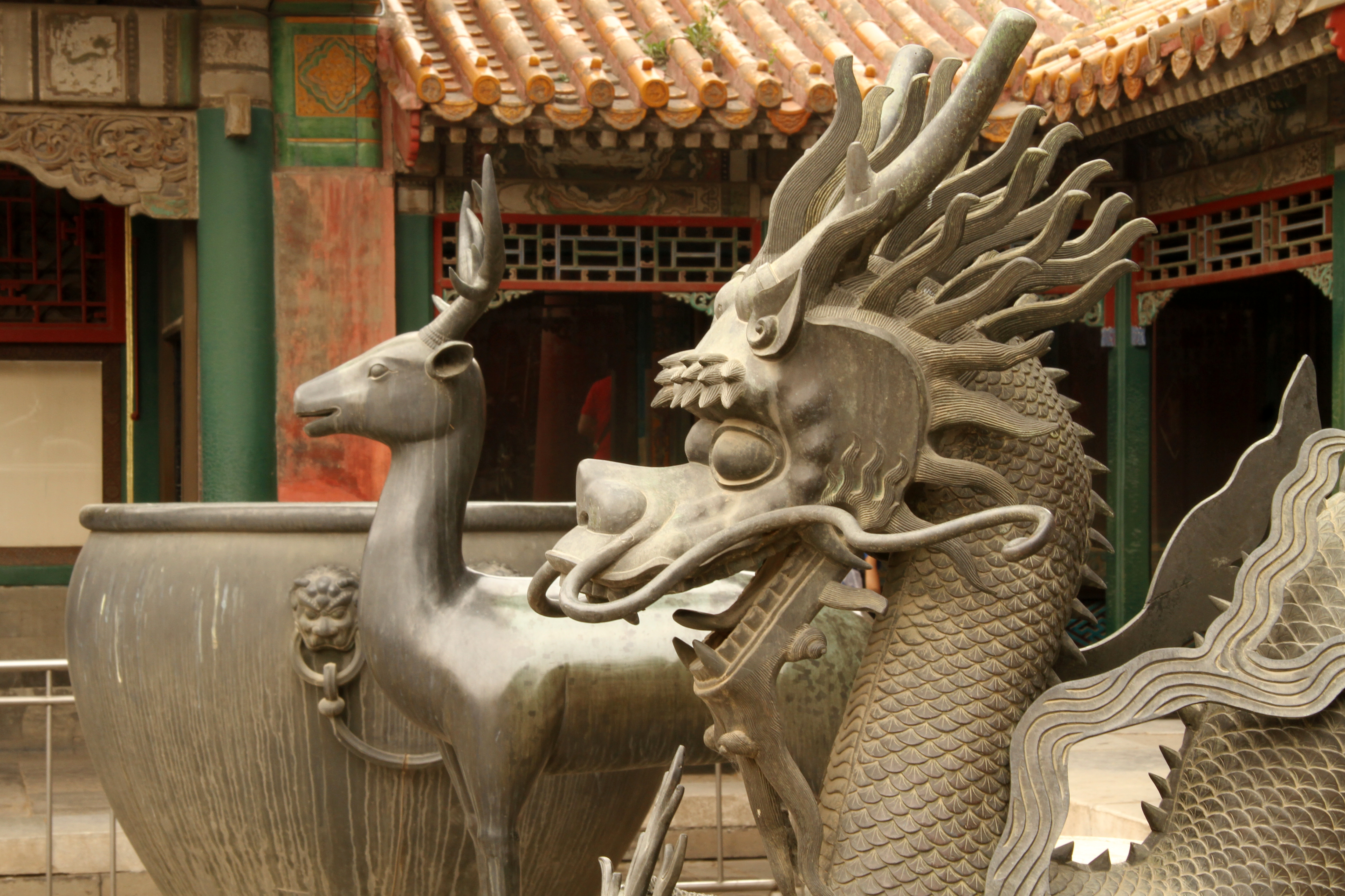 The Forbidden City - Beijing 34